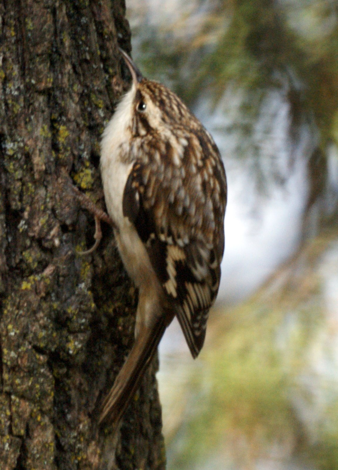 Brown Creeper